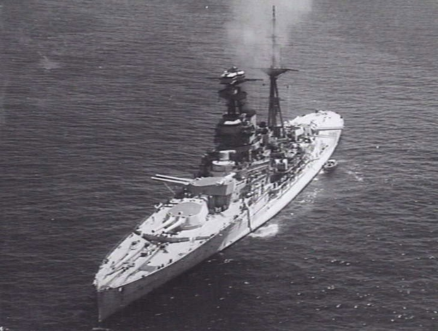 Aerial photograph from front of British battleship HMS Ramillies showing B turret trained to starboard and Y turret trained to port.